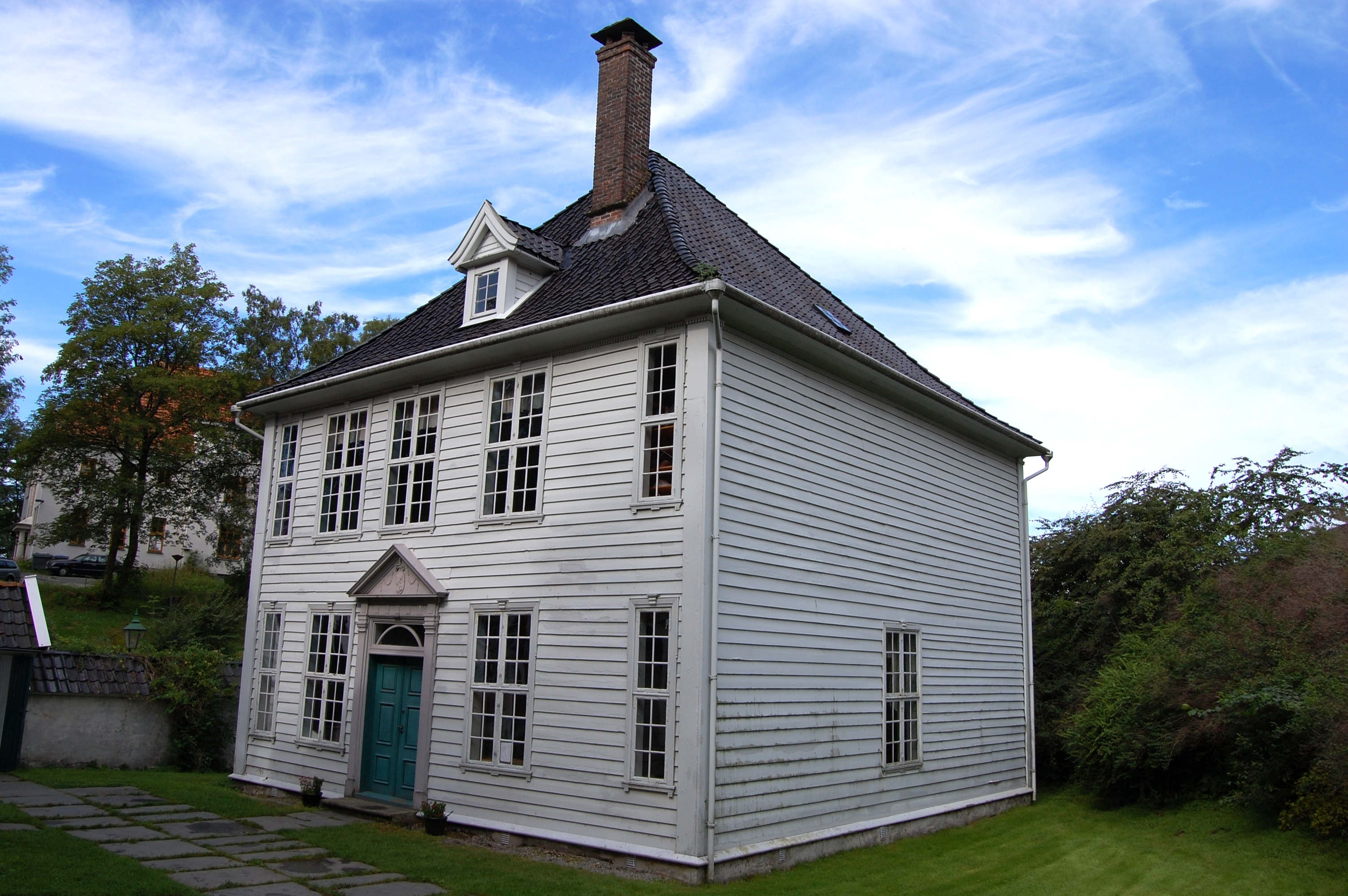 Krohnstedet at Gamle Bergen